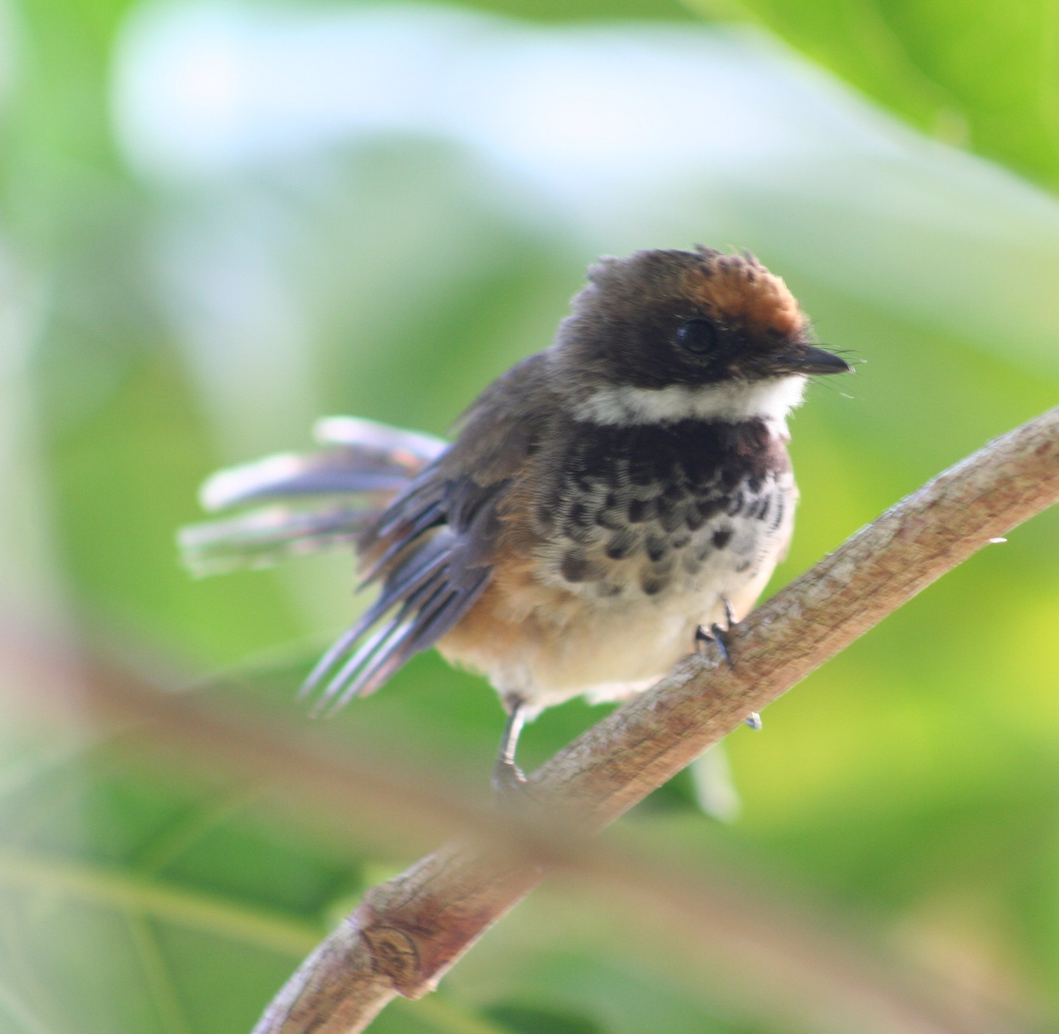 Rufous Fantail (Rhipidura rufifrons saipanensis) on Saipan of the Mariana Islands in the Pacific Ocean. The subspecies is aptly named saipanensis.